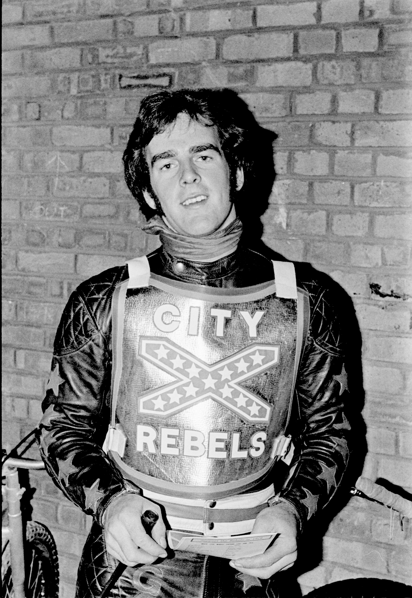 Gordon Kennett on opening night of White City Speedway 24 March 1976.